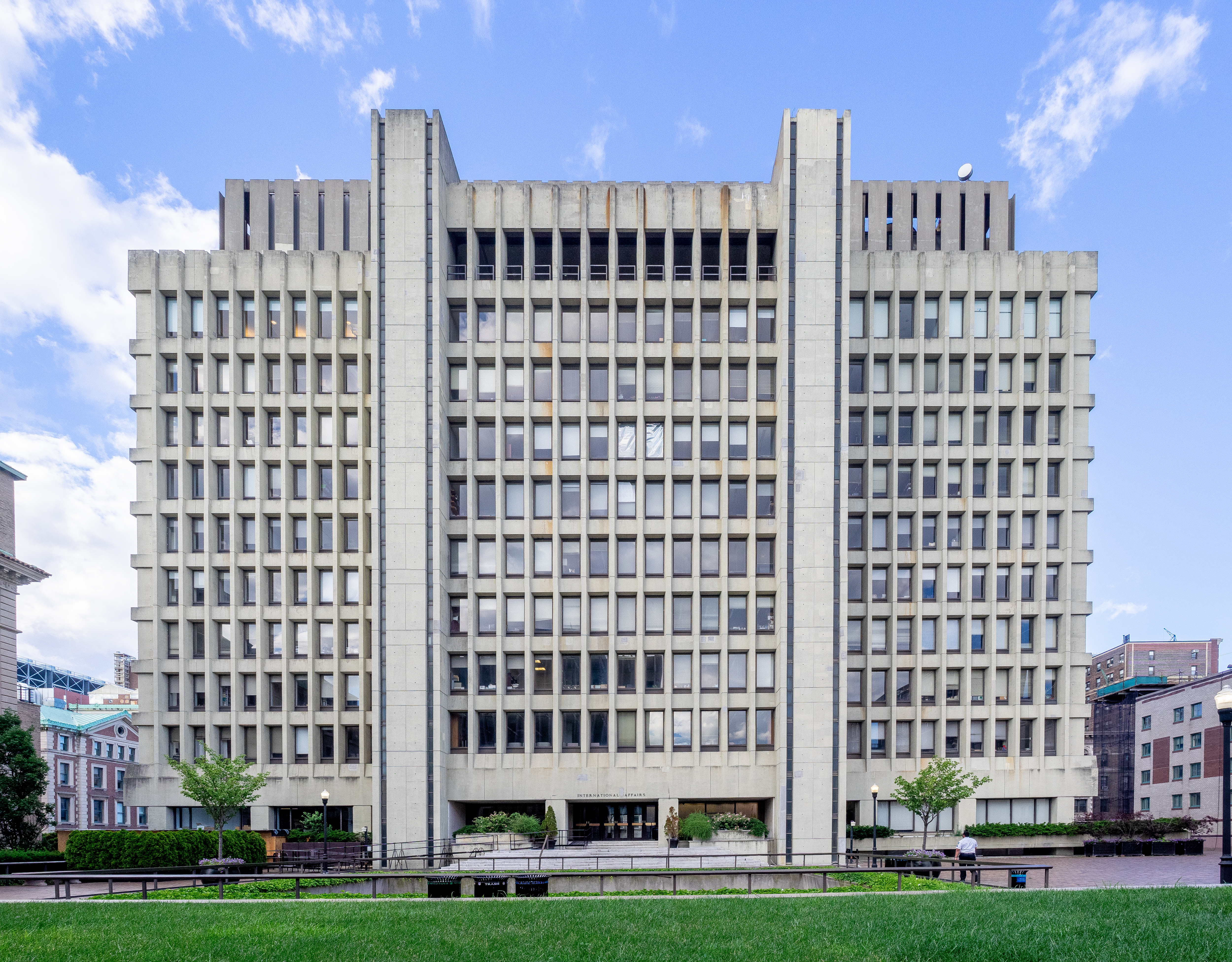 Morningside Heights, Manhattan, NYC